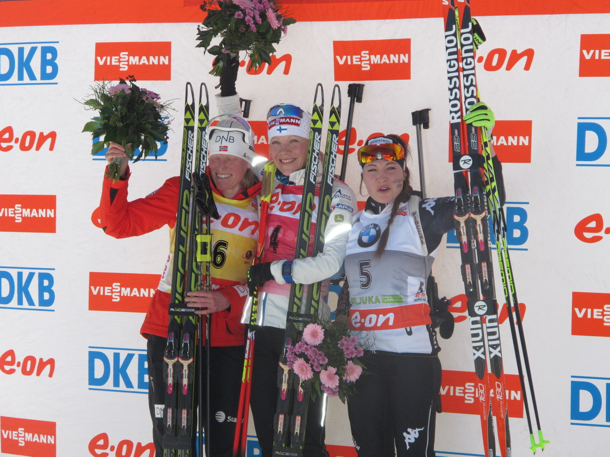 Pokljuka Biathlon World Cup.